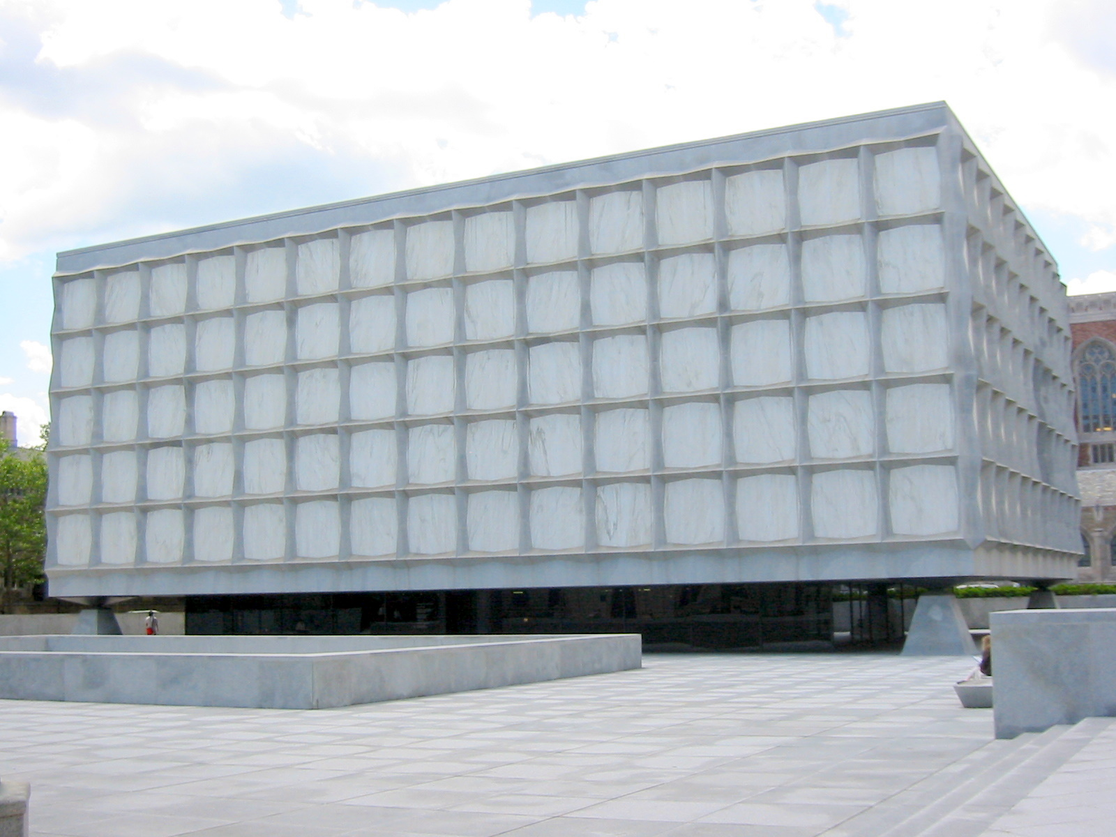 Yale University's Beinecke Library.